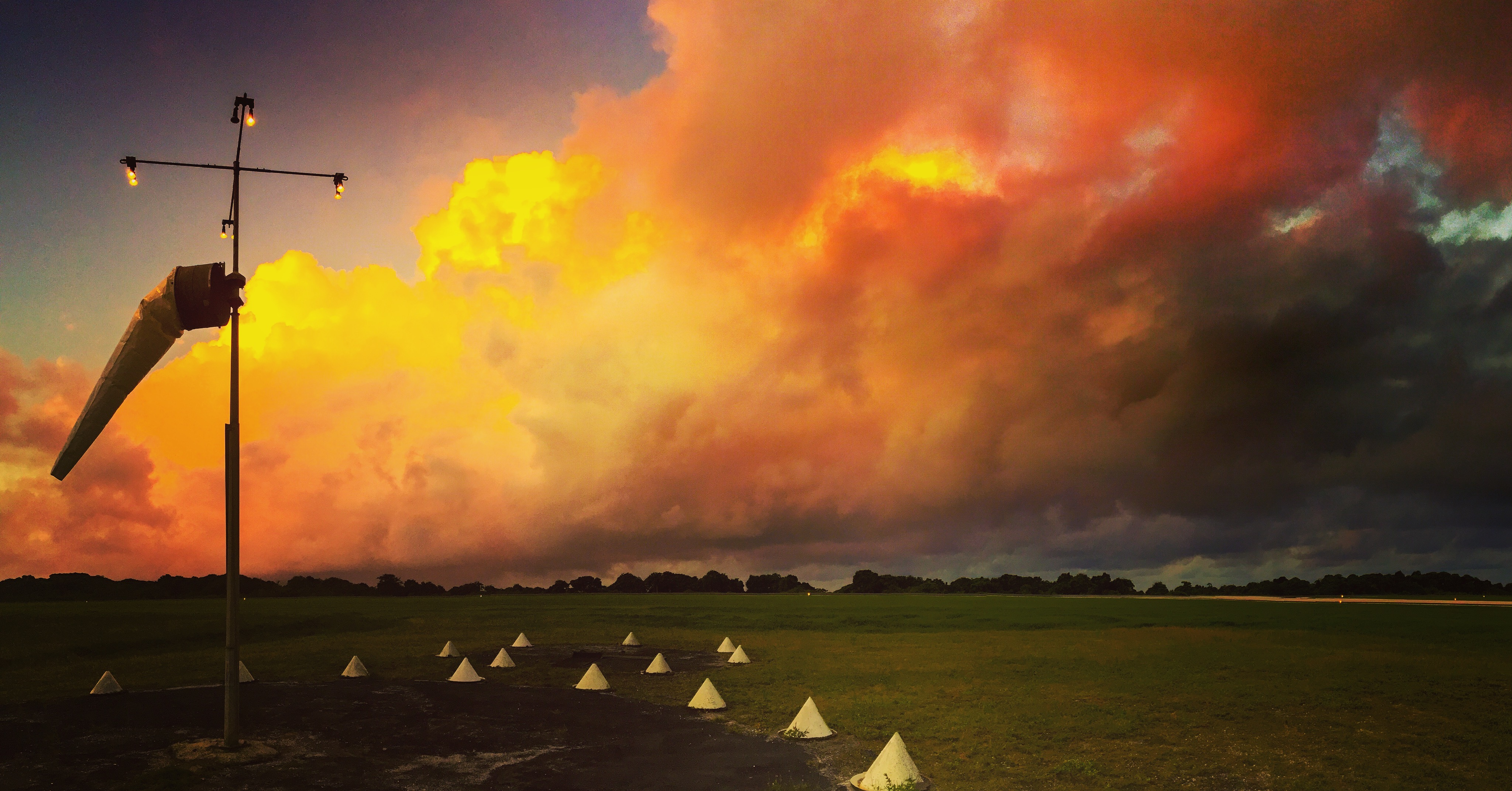 Christmas Island Airport at dusk